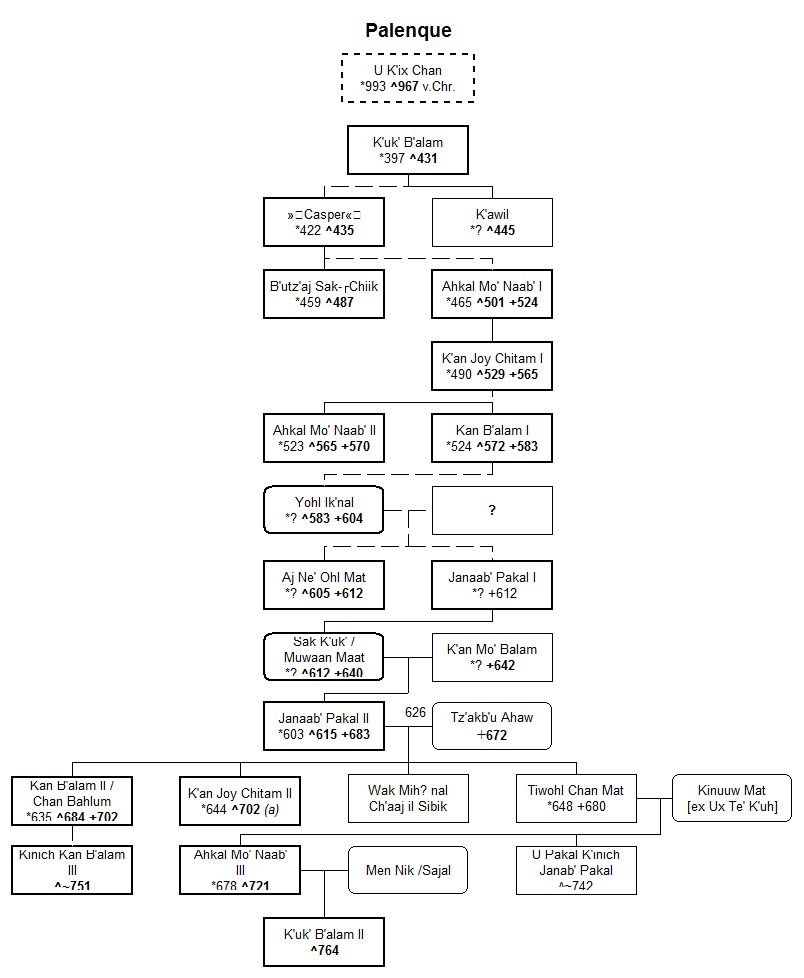 Palenque, Chiapas, Mexico: genealogy of the classical Maya rulers